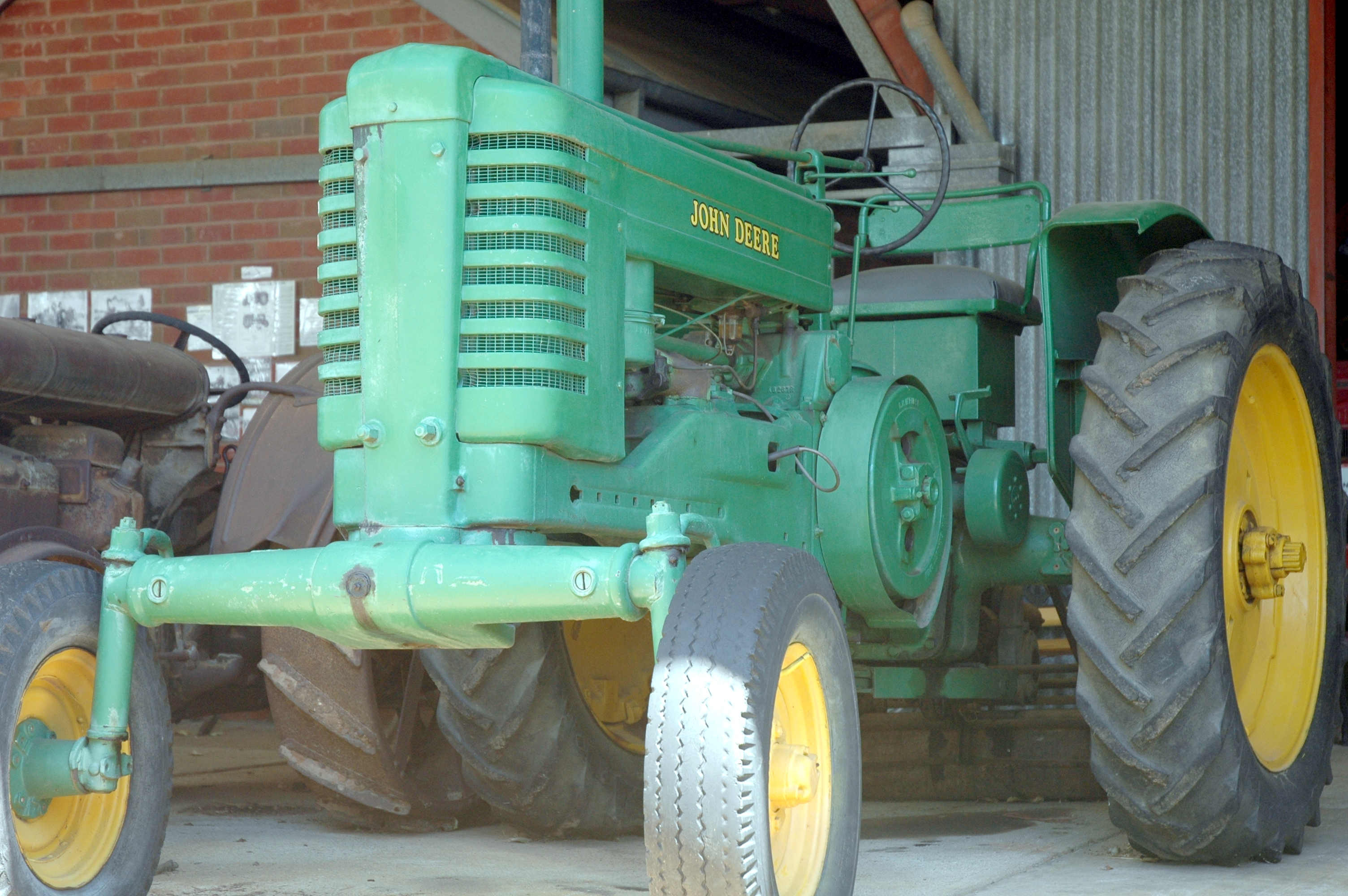 John Deere tractor, Model A, late styled, and with adjustable track front and rear, 1947-52, in Gulgong museum, New South Wales, Australia